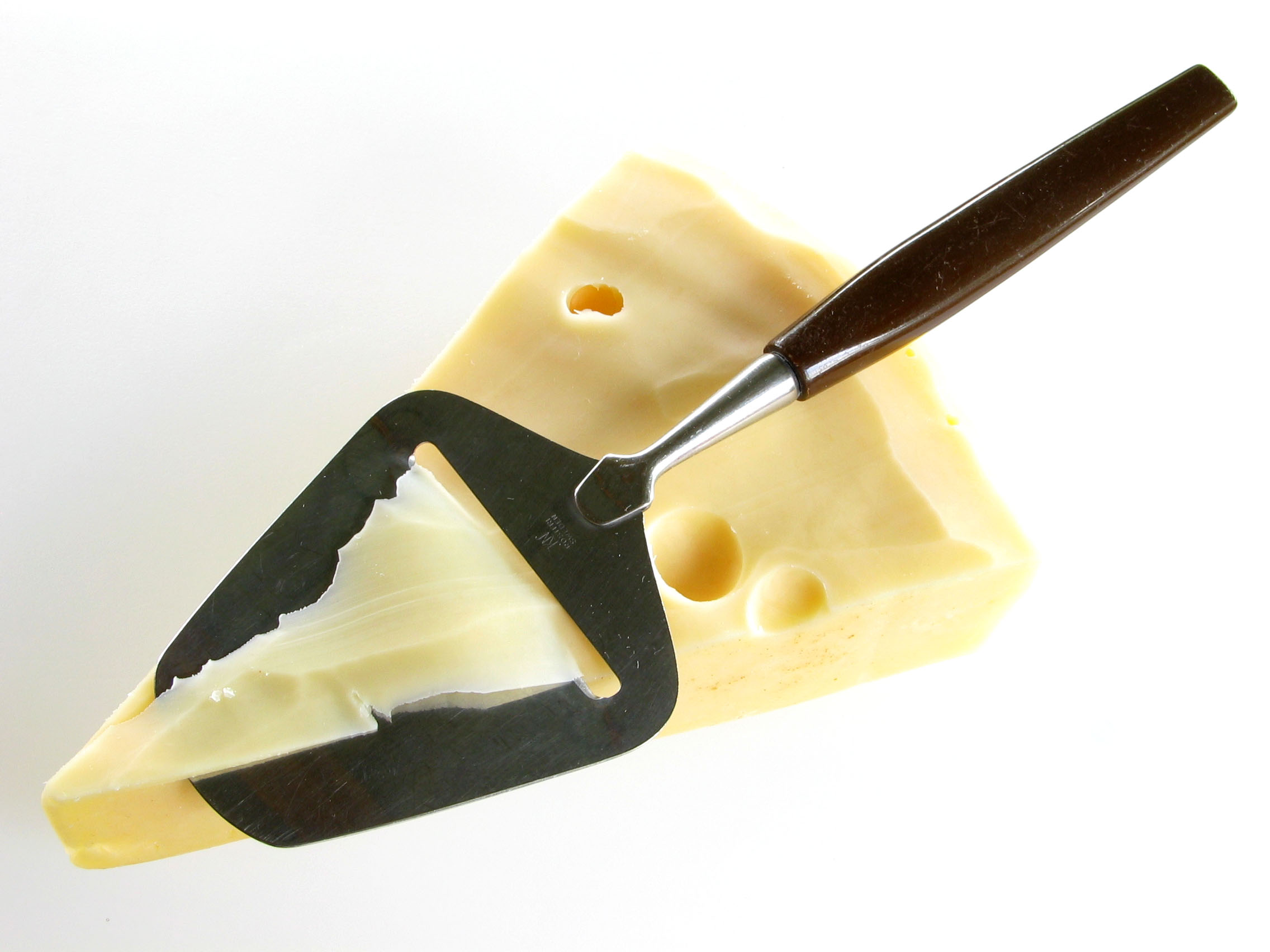 Osthyvel (cheese slicer), photo taken in Sweden